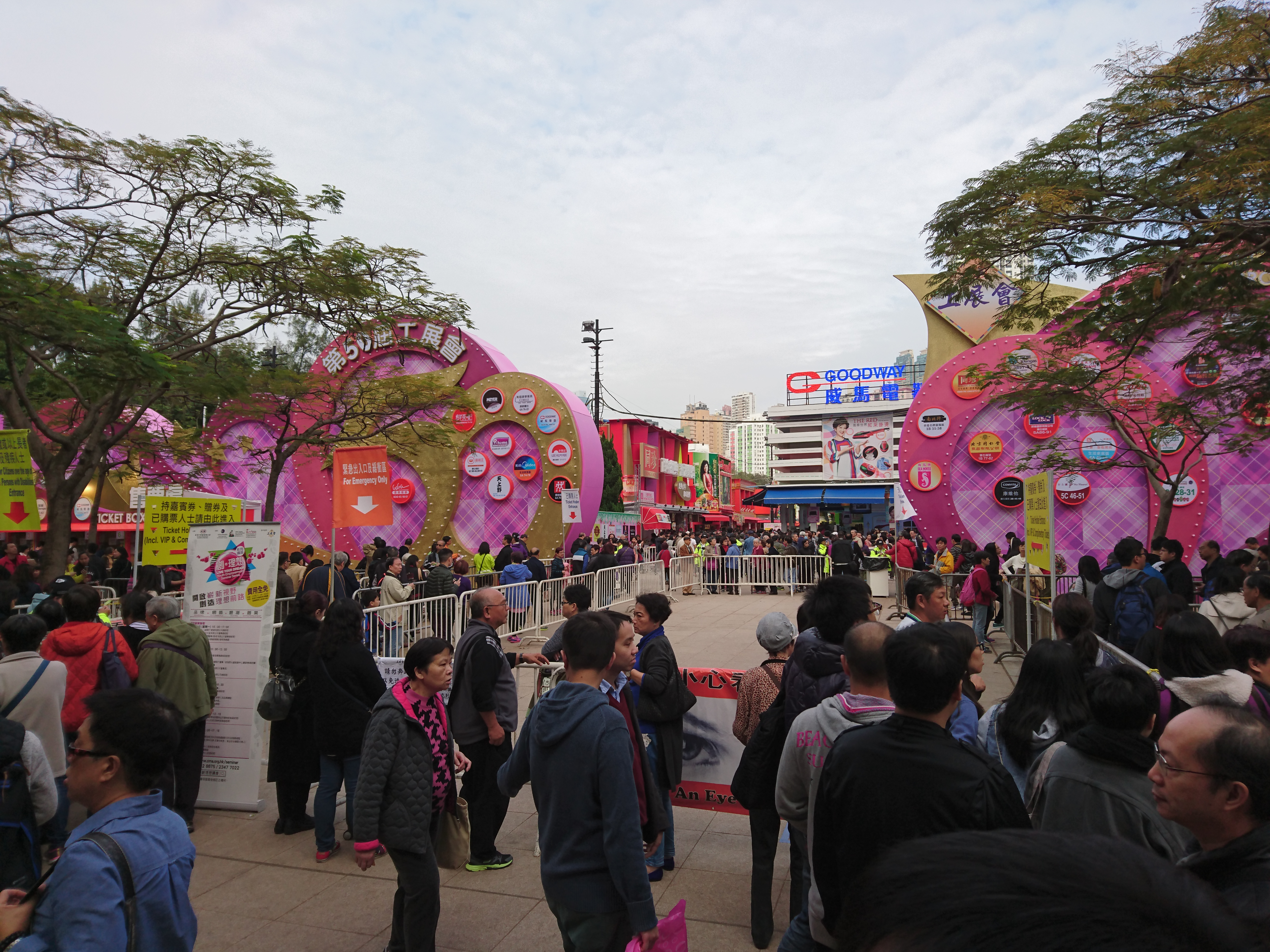 Entrance of Hong Kong Brands and Products Expo 2015